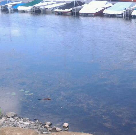 Nepean Sailing Club, Lac Deschenes, Dick Bell Park, Ottawa, Canada: beaver and boats in harbour